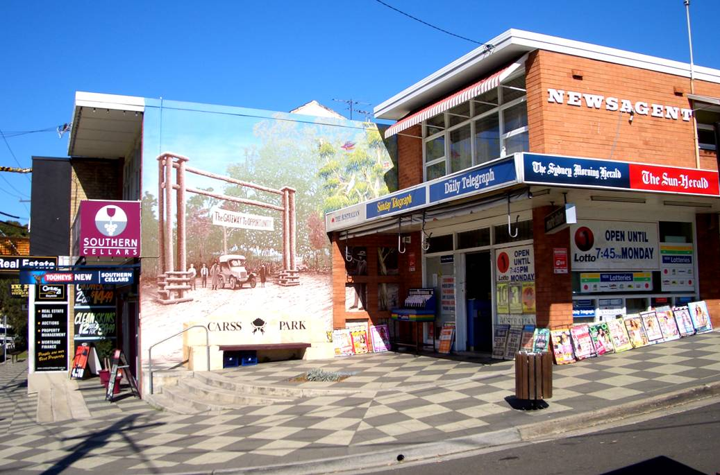 Carss Park, Sydney, Australia. I took this photo on the 14th August 2006.